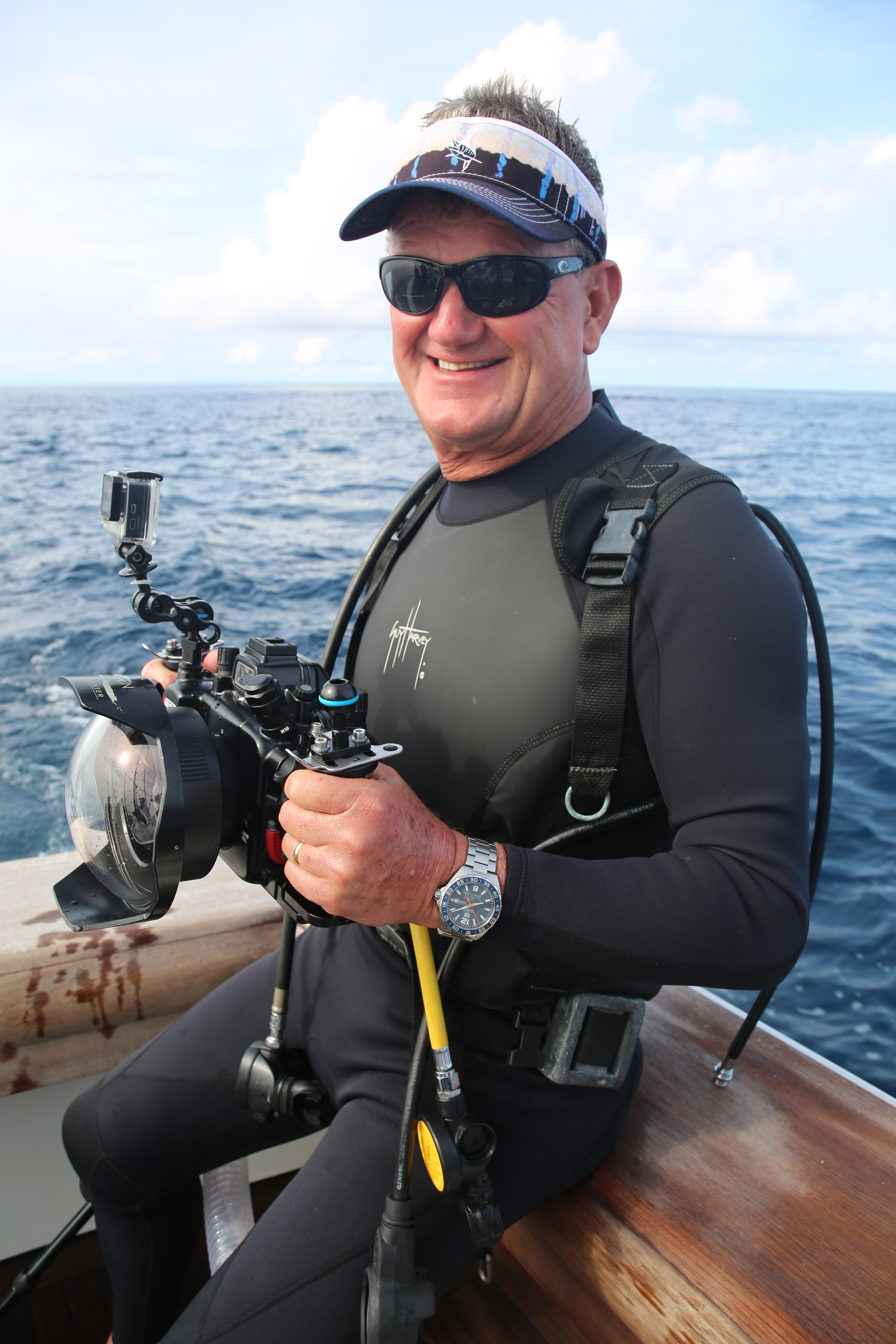 Guy Harvey posing while on an expedition in Costa Rica.